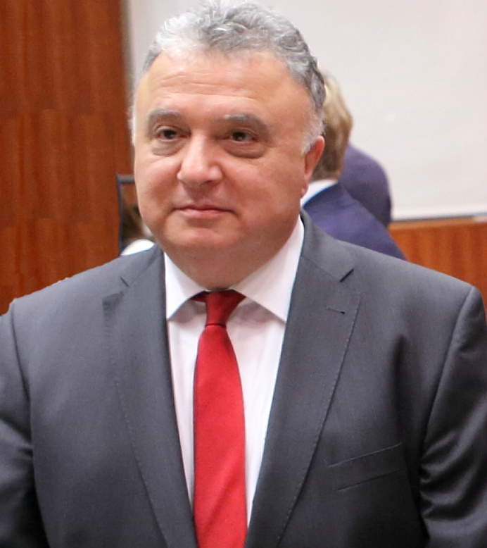 Ambassador of Israel Jeremy Issacharoff with guests